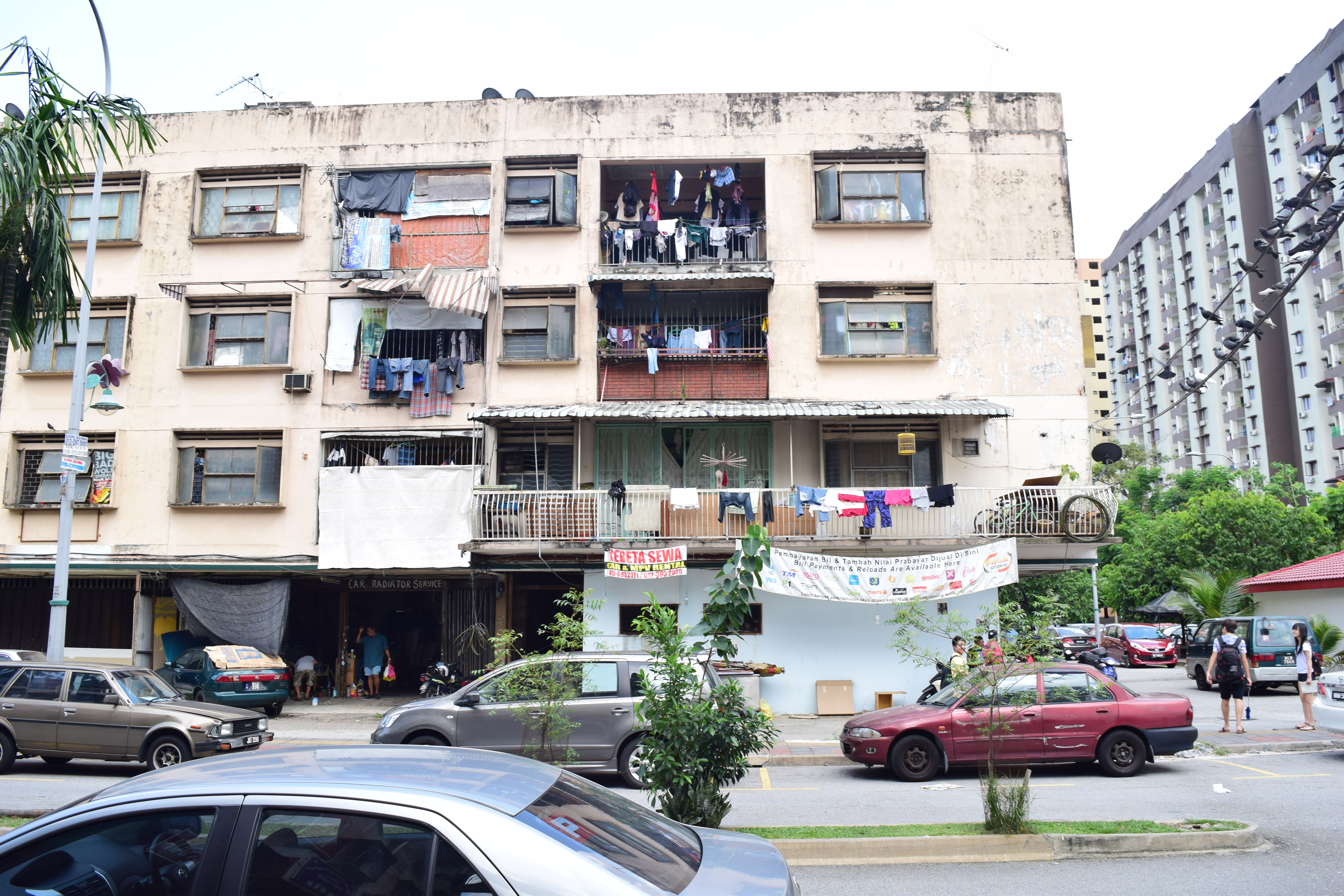 Rear View of Marble Jade Mansion